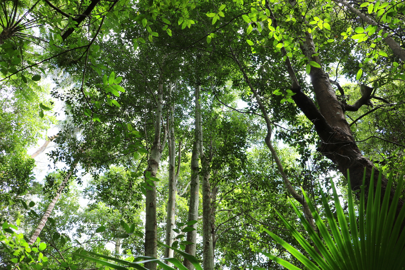 Browns Field warm temperate rainforest with Doryphora sassafras & Cryptocarya glaucescens. Wahroonga, NSW, Australia.